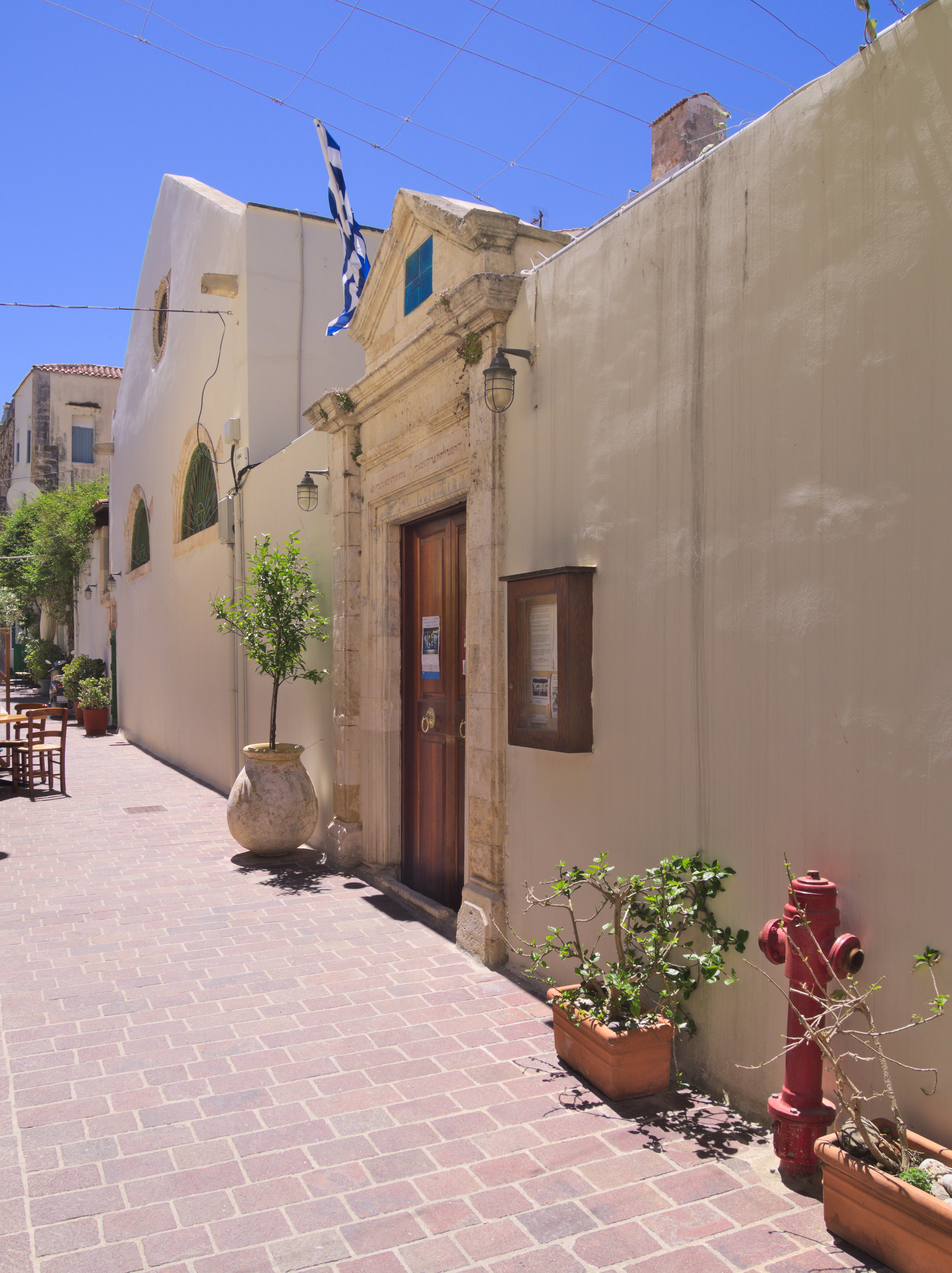 The Etz Hayyim Synagogue, old city of Chania. The 14th century building is the only surving monument associated with the Hebrews of Crete. The build was victim of the bombardment at 1944 and was reconstructed in 1997.